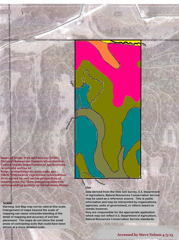 Map shows soils of private land in Alamakee County Iowa. Note transition from prairie on north into savanna then southward into forest soils.